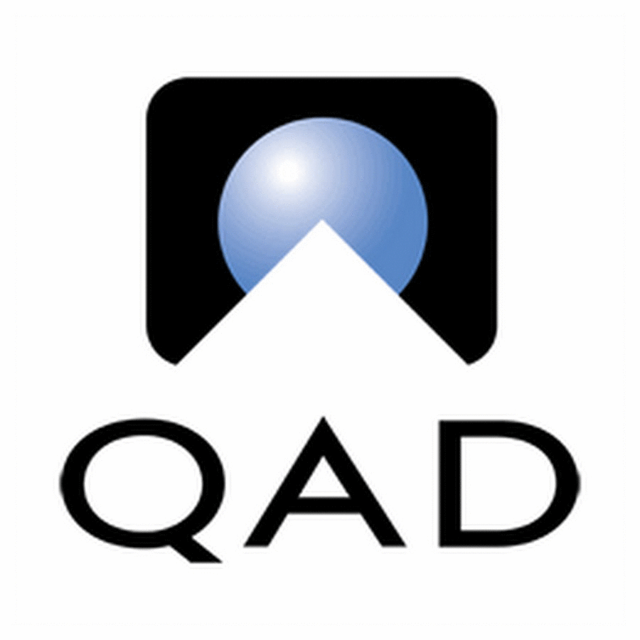 QAD logo